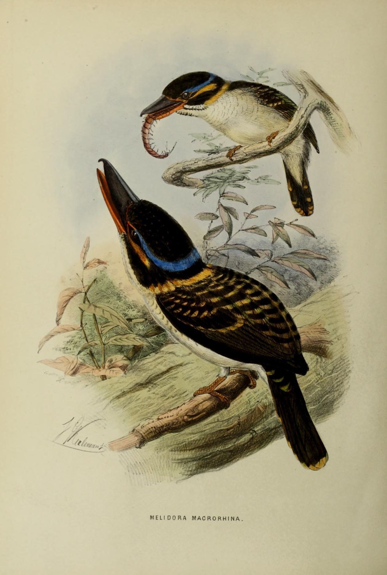 Melidora macrorrhina by John Gerrard Keulemans